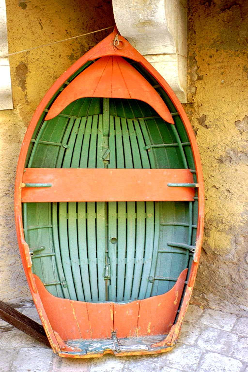 Boat painted green and orange, Saint-Tropez, France